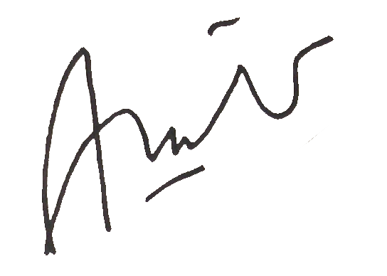 Signature of Indonesian singer Ari Lasso